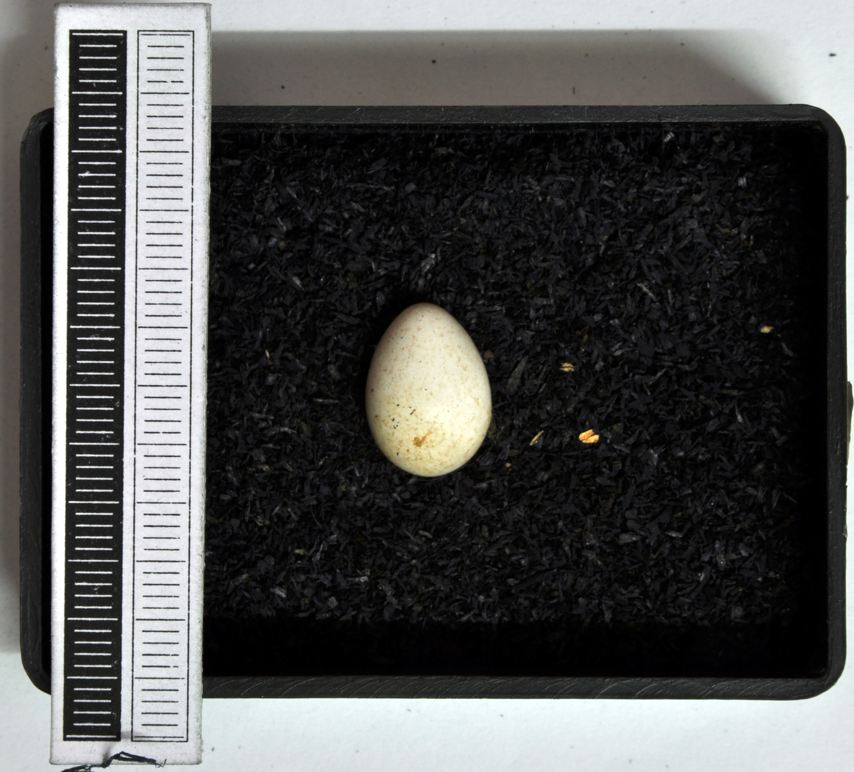 Long-tailed tit Aegithalos caudatus, egg, Coll. Museum Wiesbaden, leg. W. Abelmann